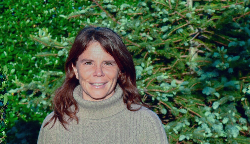 Photo of Jennifer Wilcox, chemical engineer